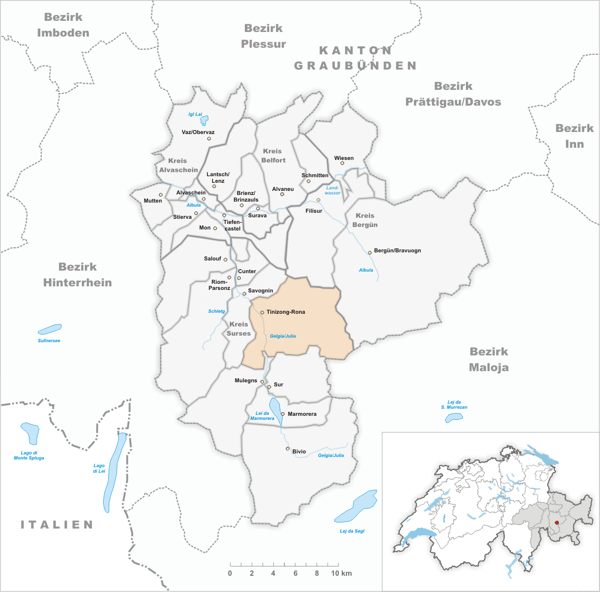 Municipality Tinizong-Rona